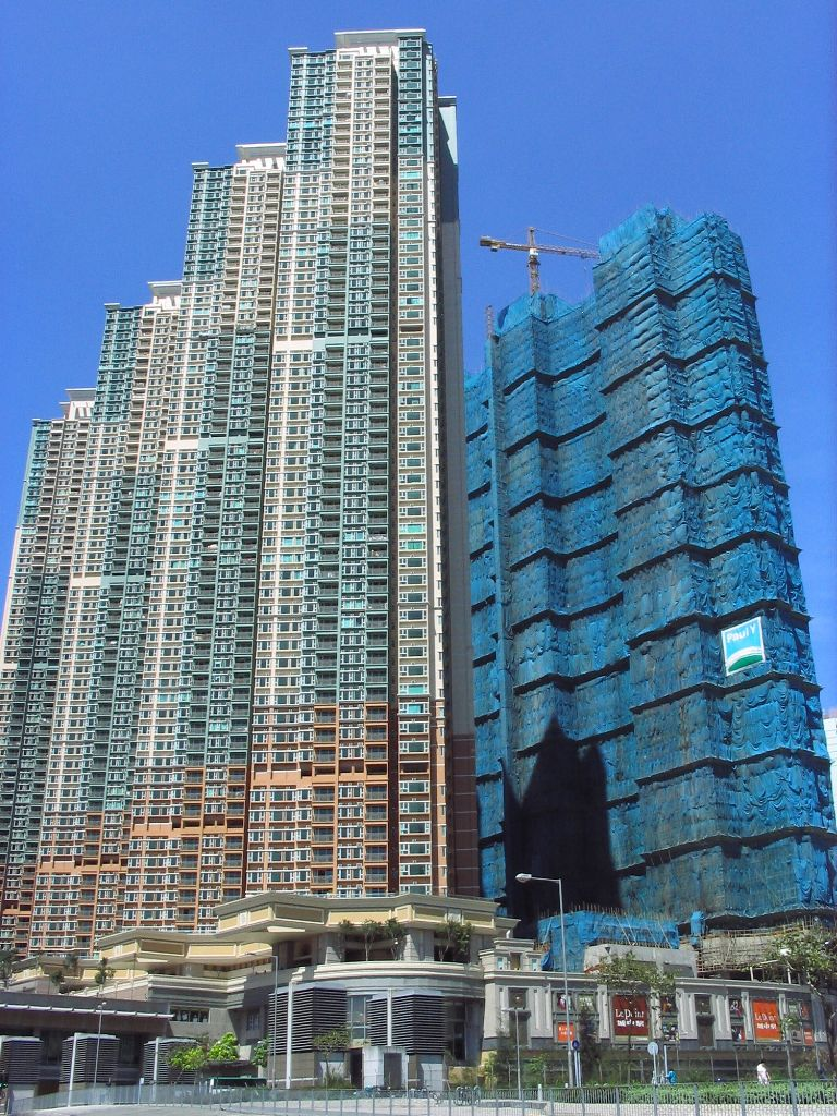 都會駅（左）及城中駅 Metro Town (Left) & Le Point